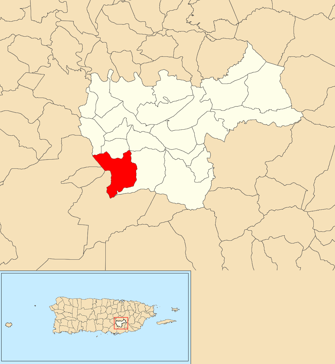 Cercadillo, Cayey, Puerto Rico locator map